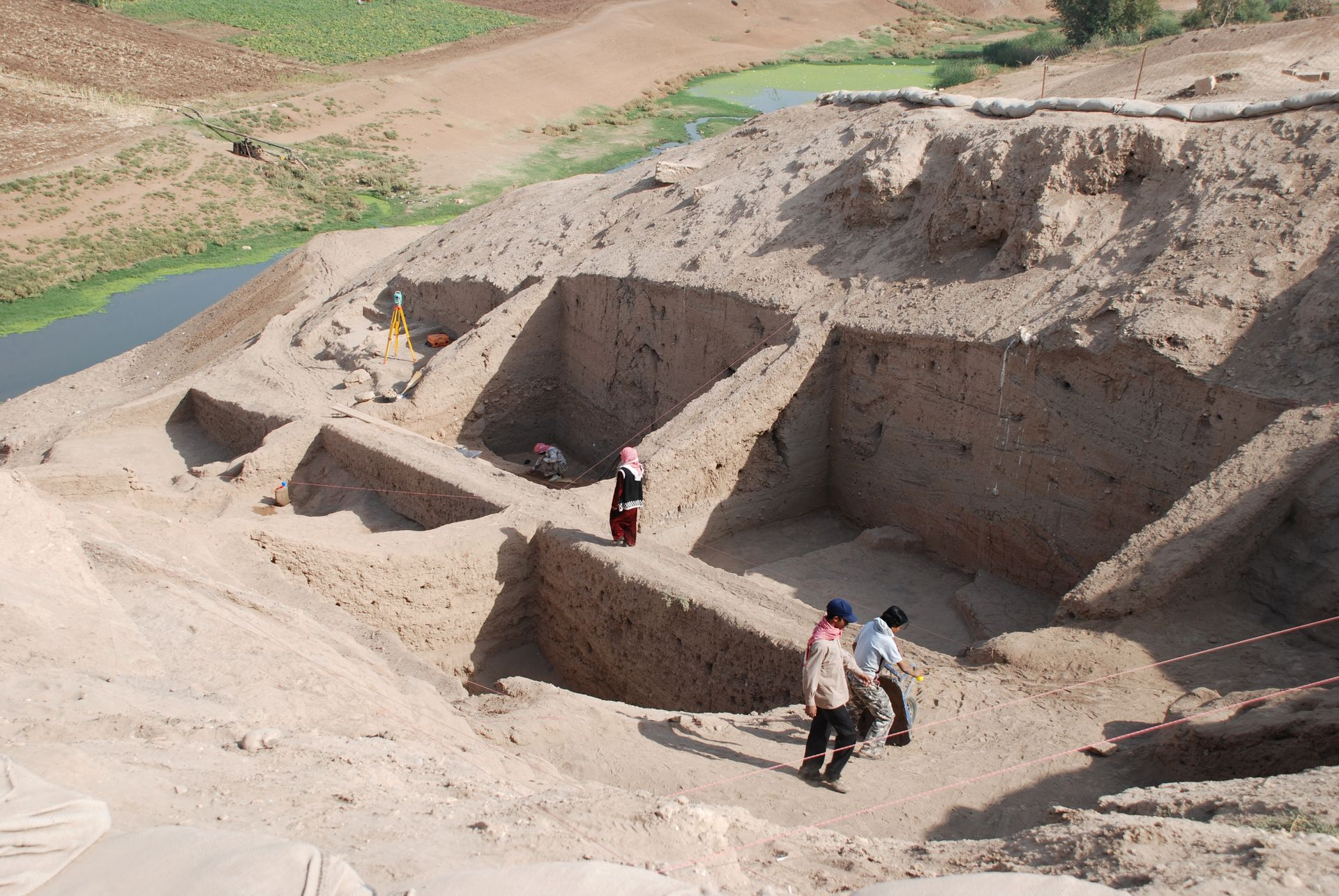 Tell Halaf, Syria, excavation north part